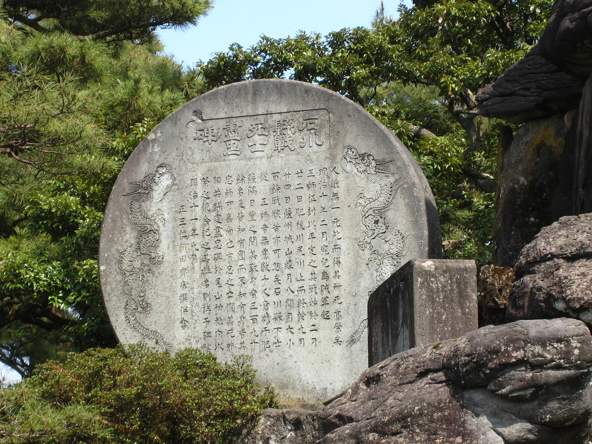 Chinese classical text seen on a stone craving in Japan Ishigawa prefecture Kanazawa Kenroku-En garden. The text and the stone monument is for memorial for the warriors died in a war. 中文（香港）: 日本石川縣金澤市兼六園內石碑 所見 文言文漢字 碑文 紀念陣亡戰士 : 人誰無一死...